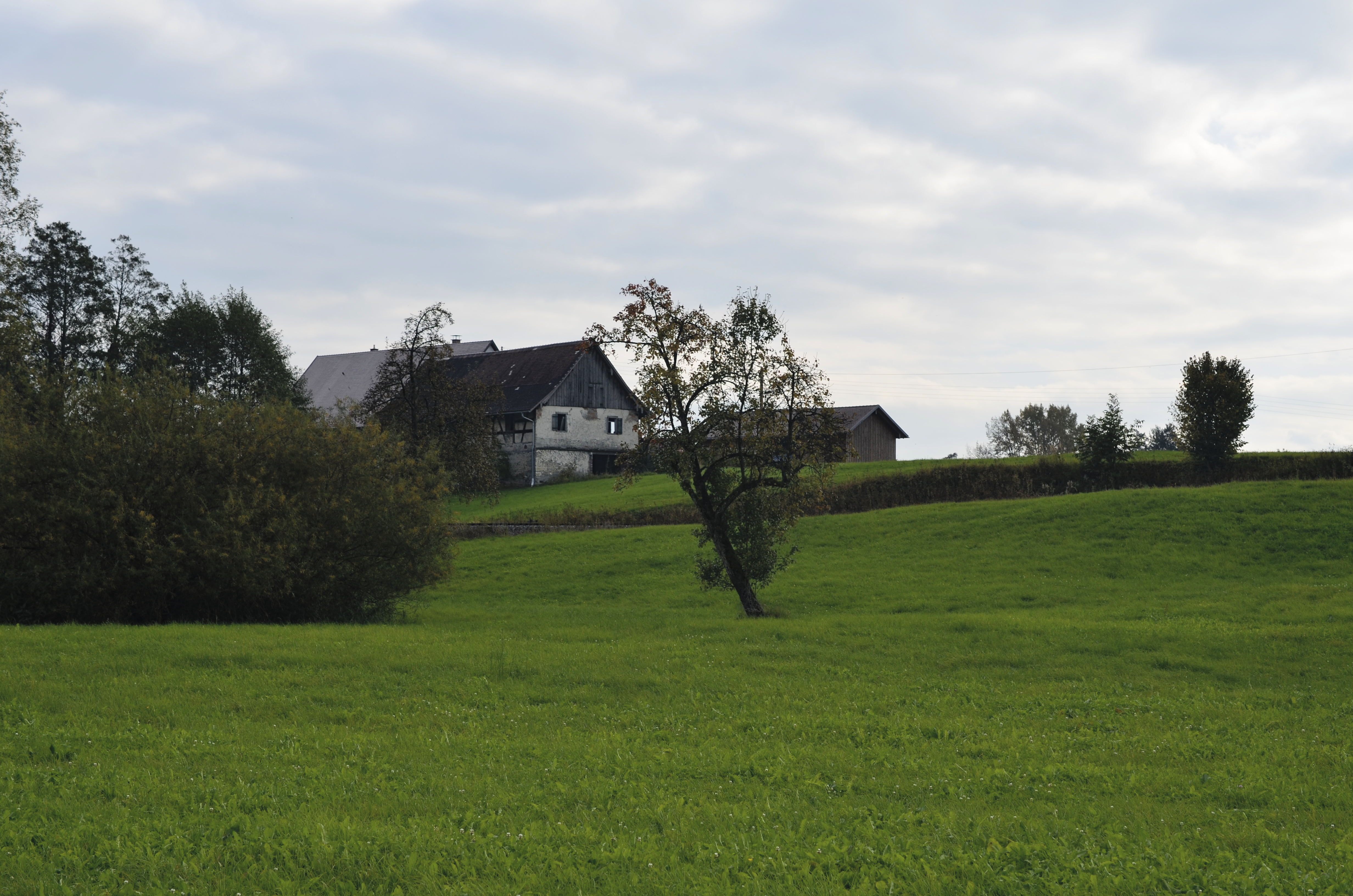 Mill in the Fugger-Komplex nearby Bodolz